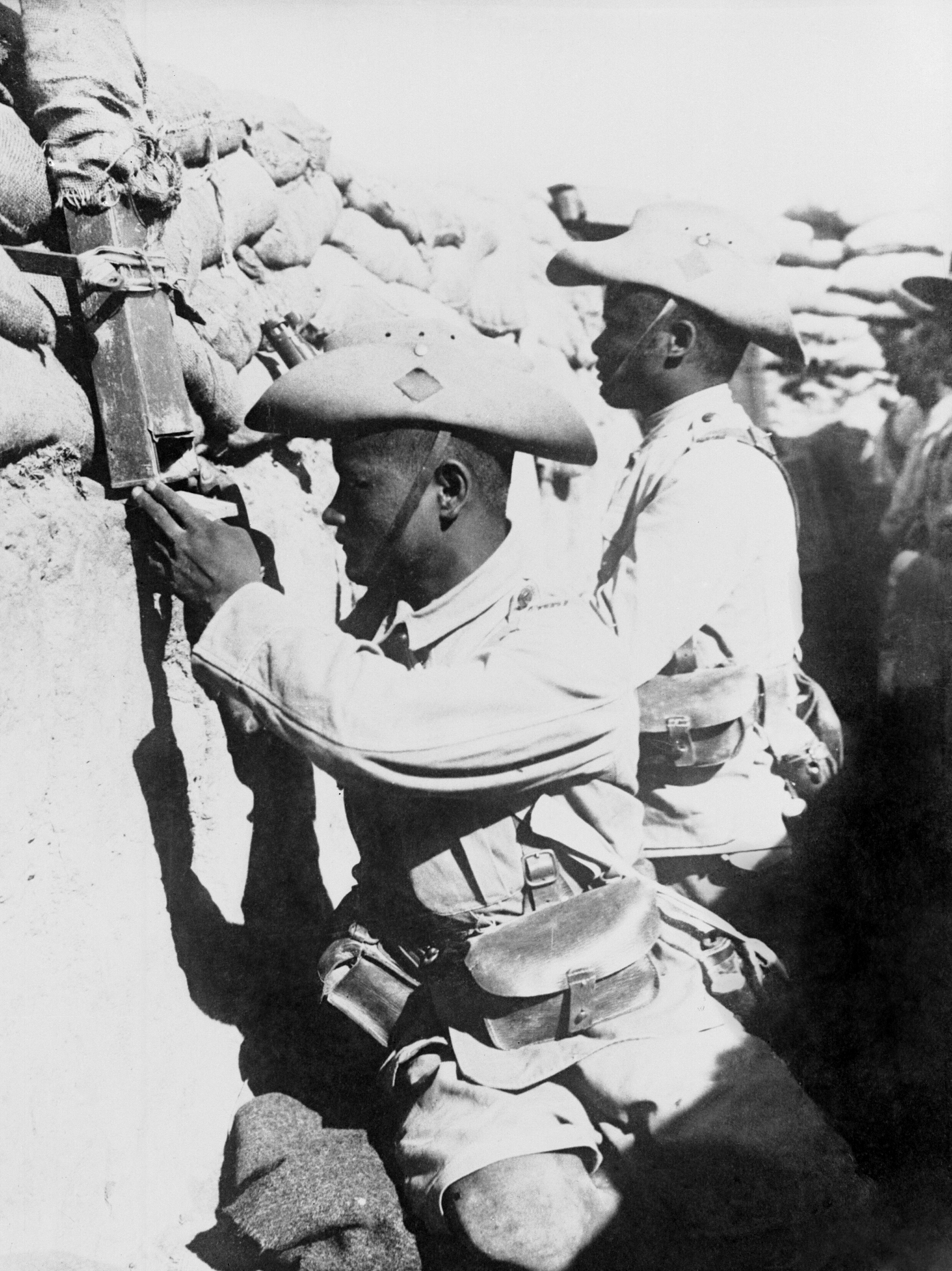 IWM caption : The Advance across the Desert: A portrait of sentries of the 3/3rd Gurkha Rifles in the front line trenches in Palestine.